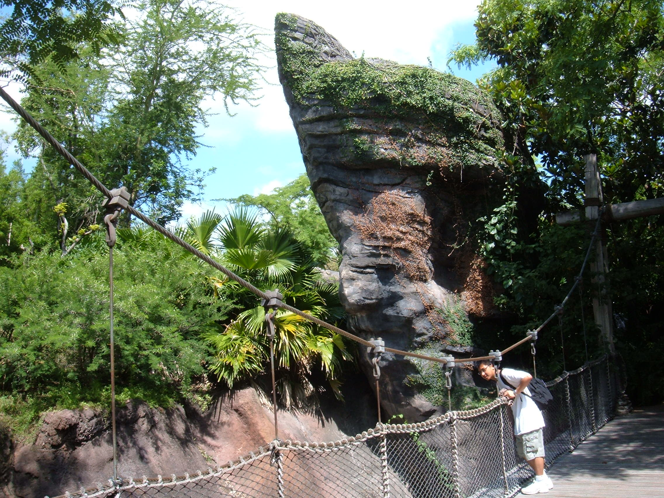 The Maharajah Jungle Trek in the Asia section of Disney's Animal Kingdom at the Walt Disney World Resort near Orlando, Florida.